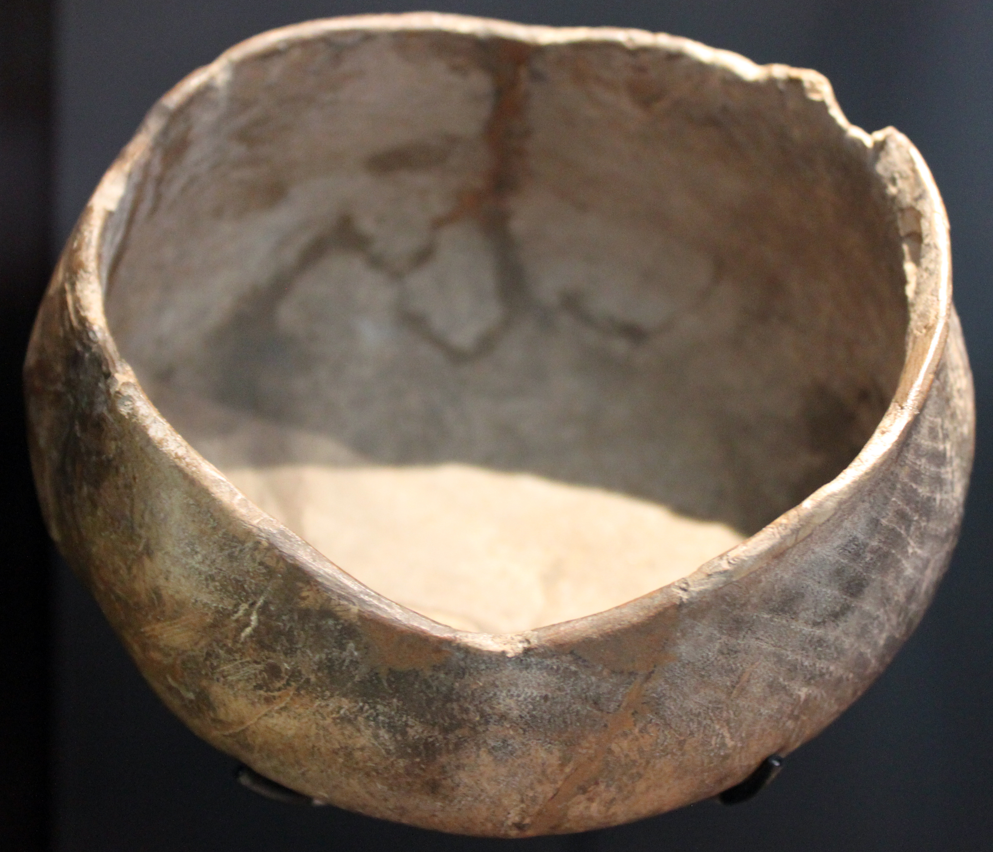 Wooden Bowl, 3.700 BC, Ravensburg region, shown at the Landesmuseum Württemberg, Stuttgart, Germany